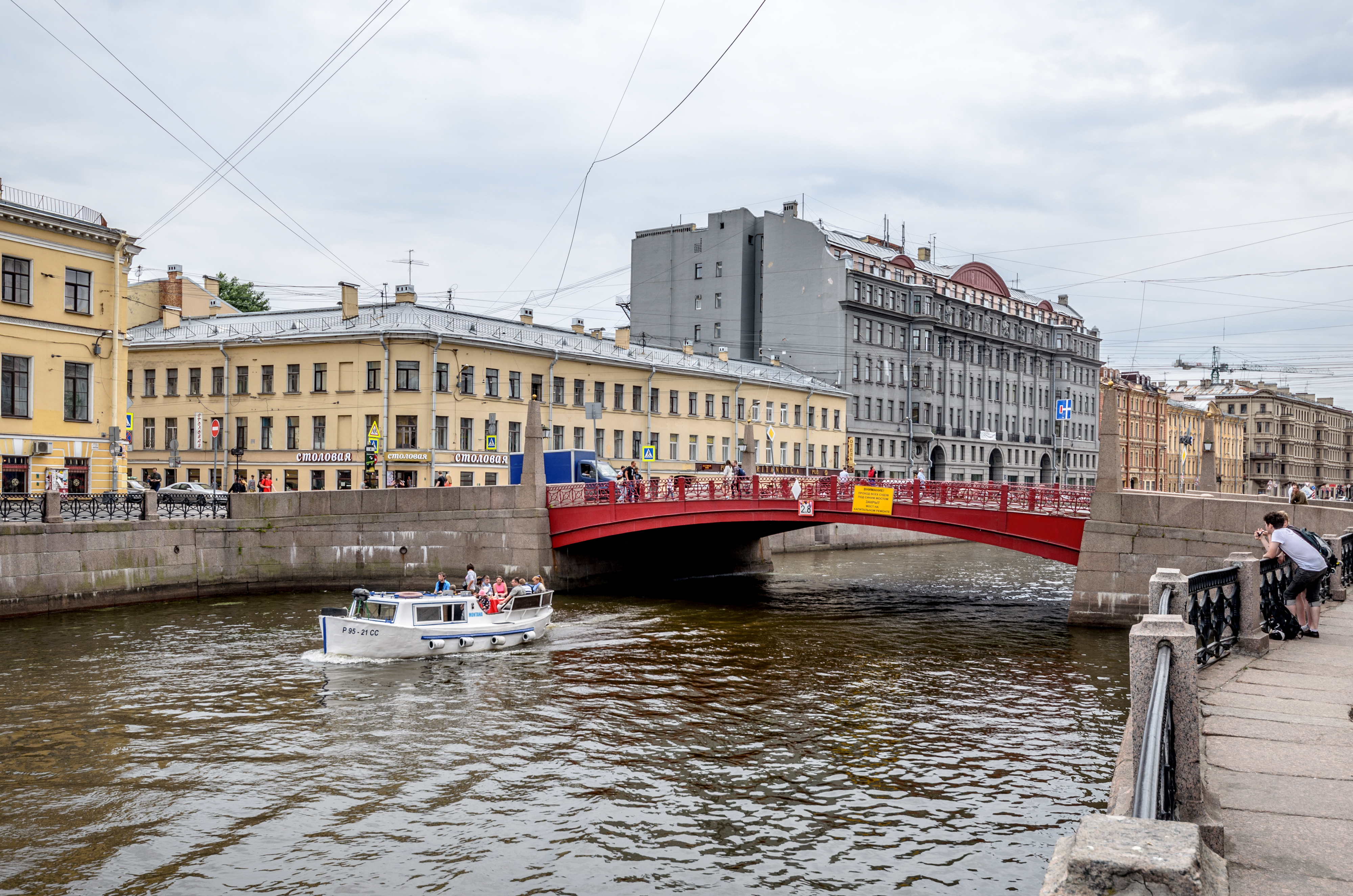 Red Bridge in Saint Petersburg